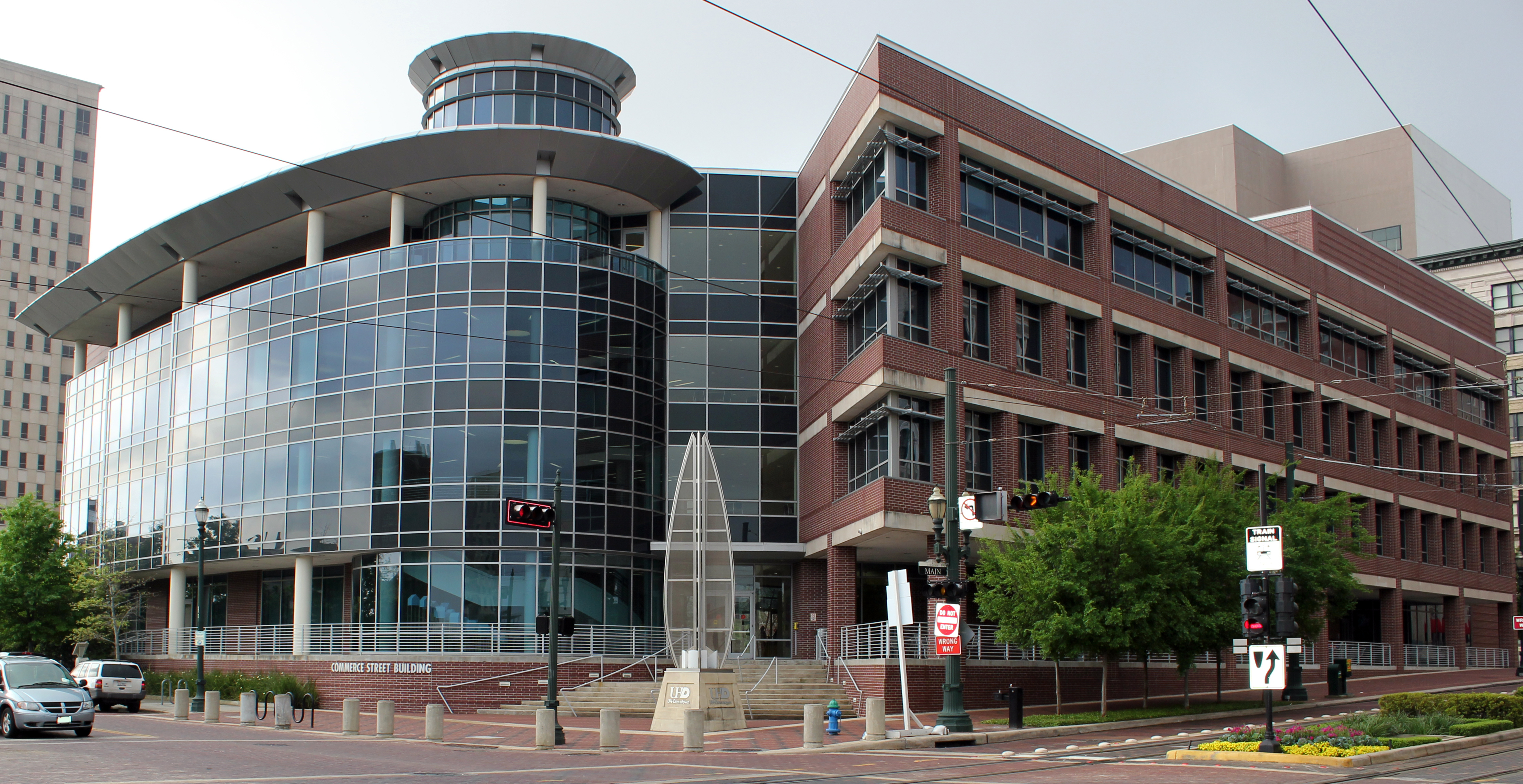 University of Houston-Downtown Commerce Building. This building is located at the intersection of Main Street and Commerce Street in Houston, Texas, USA.